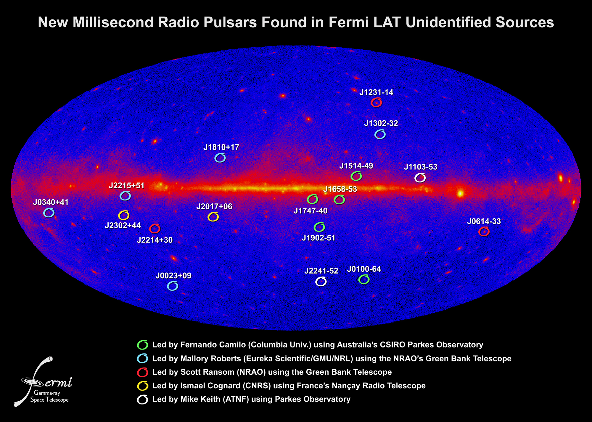 Nature's Most Precise Clocks May Make "Galactic GPS" Possible. Radio searches netted 17 new millisecond pulsars by examining the Fermi Gamma-ray Space Telescope's list of unidentified sources. Colored circles indicate the positions of the new pulsars on the Fermi one-year all-sky map.